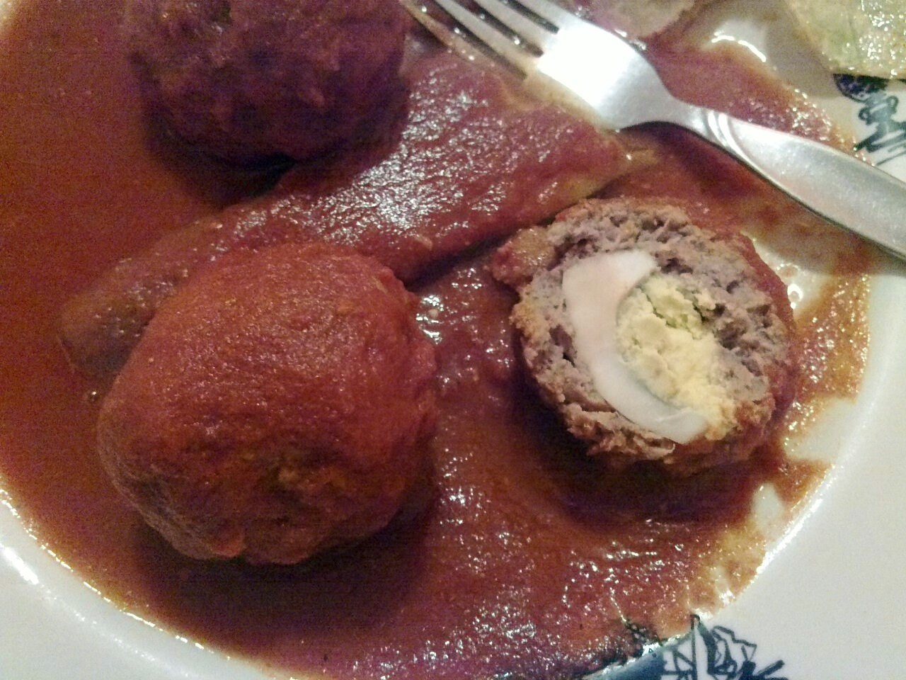 (meatballs in tomato chipotle sauce) Fonda el Refugio, Zona Rosa, DF